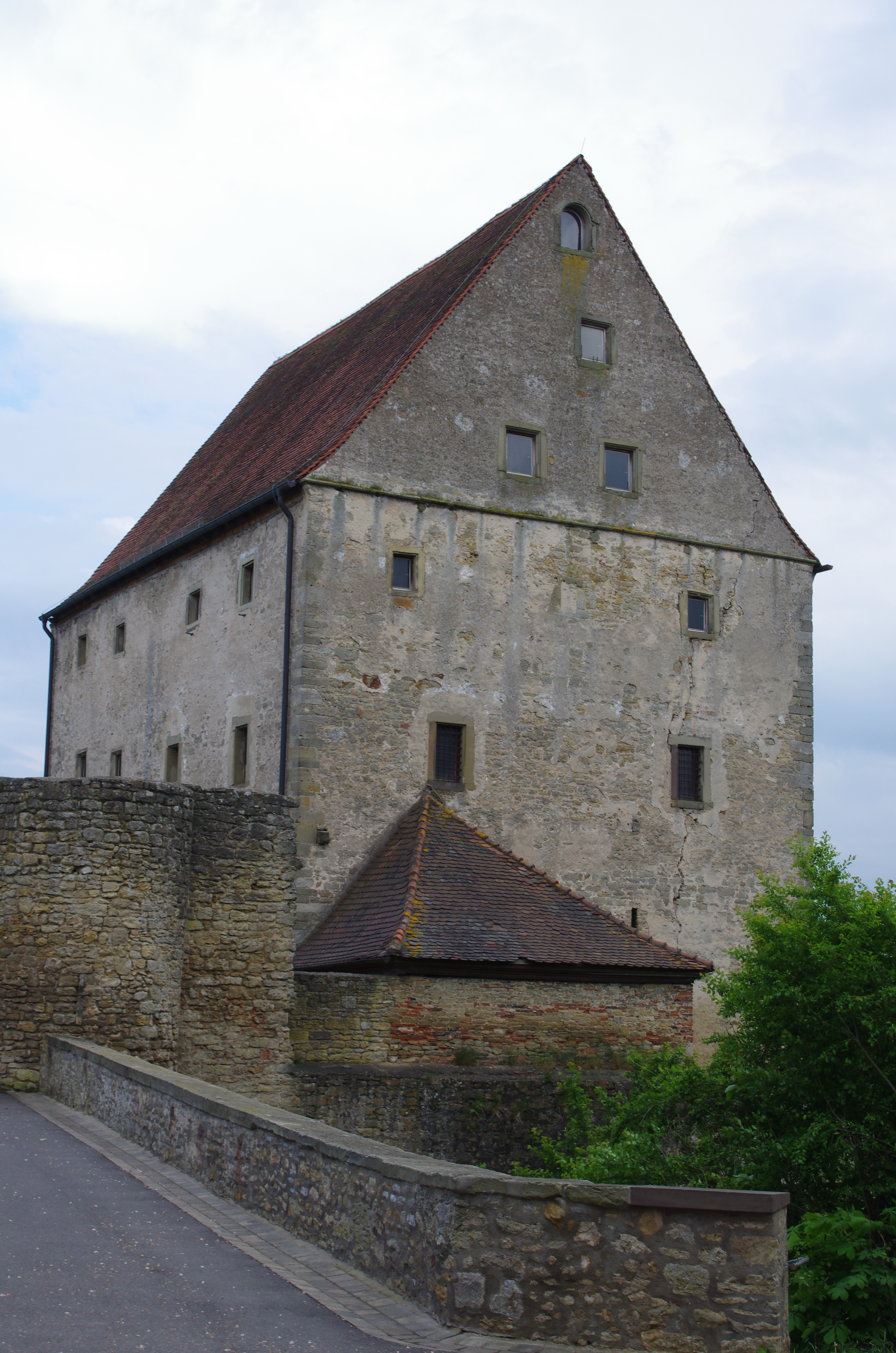 Google Maps - Google Earth